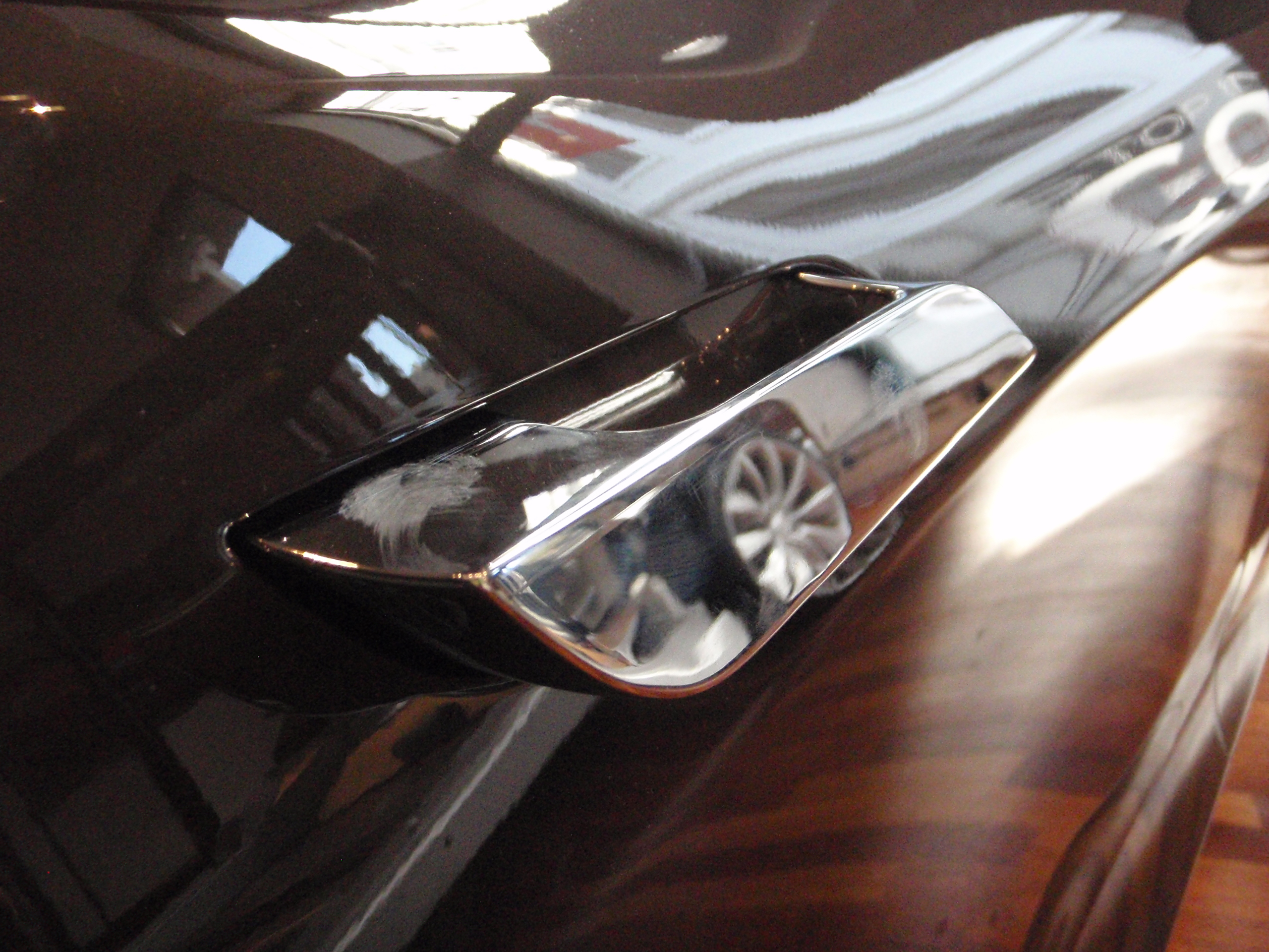 Tesla Model S outside door handle (unlocked position) displayed in the Tesla Store, Copenhagen